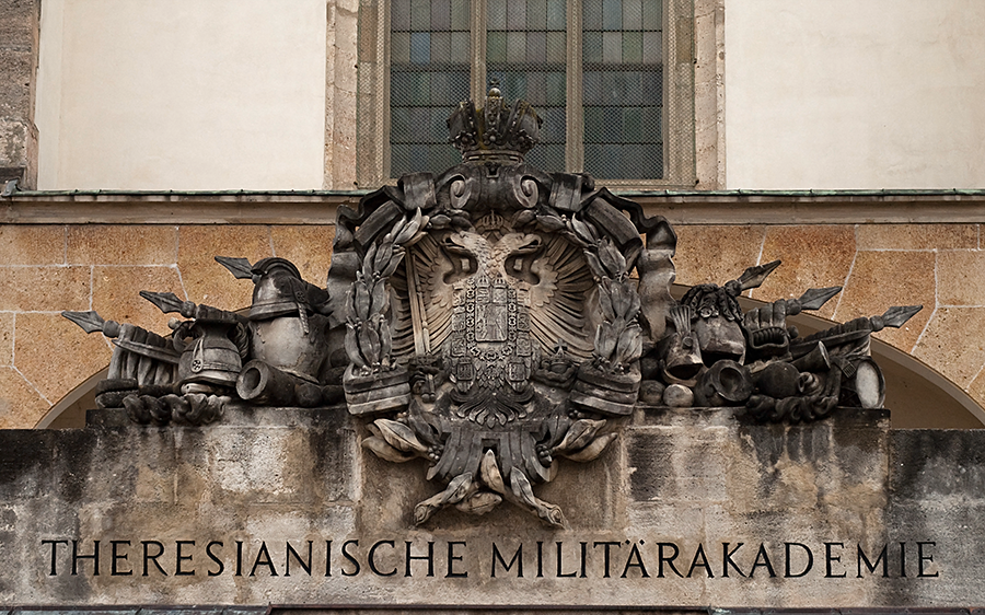 The coat of arms above Theresian Military Academy entrance in Wiener Neustadt, Austria.